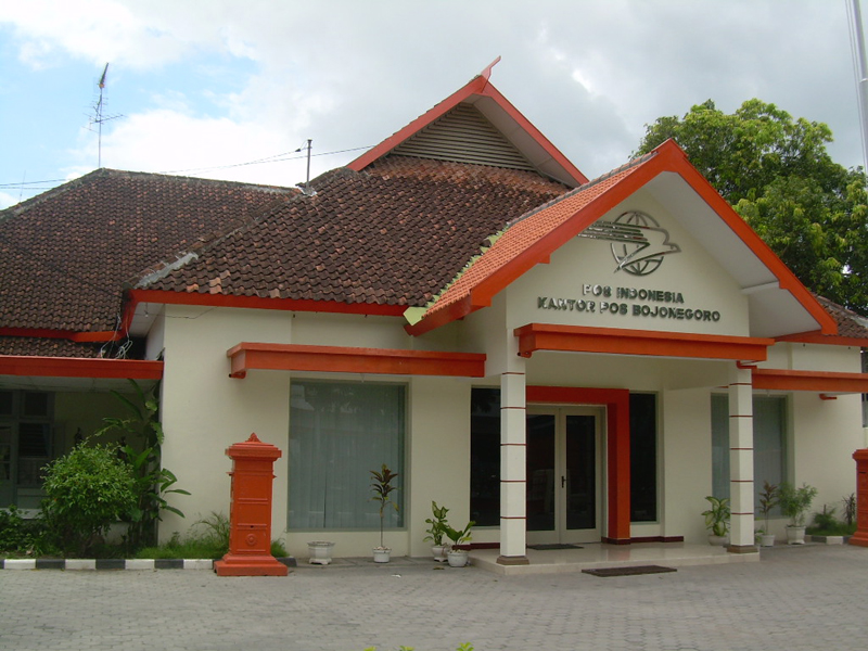 Central Post Office in Bojonegoro, East Java, Indonesia. Taken by me (Arifhidayat 13:03, 6 February 2007 (UTC)).